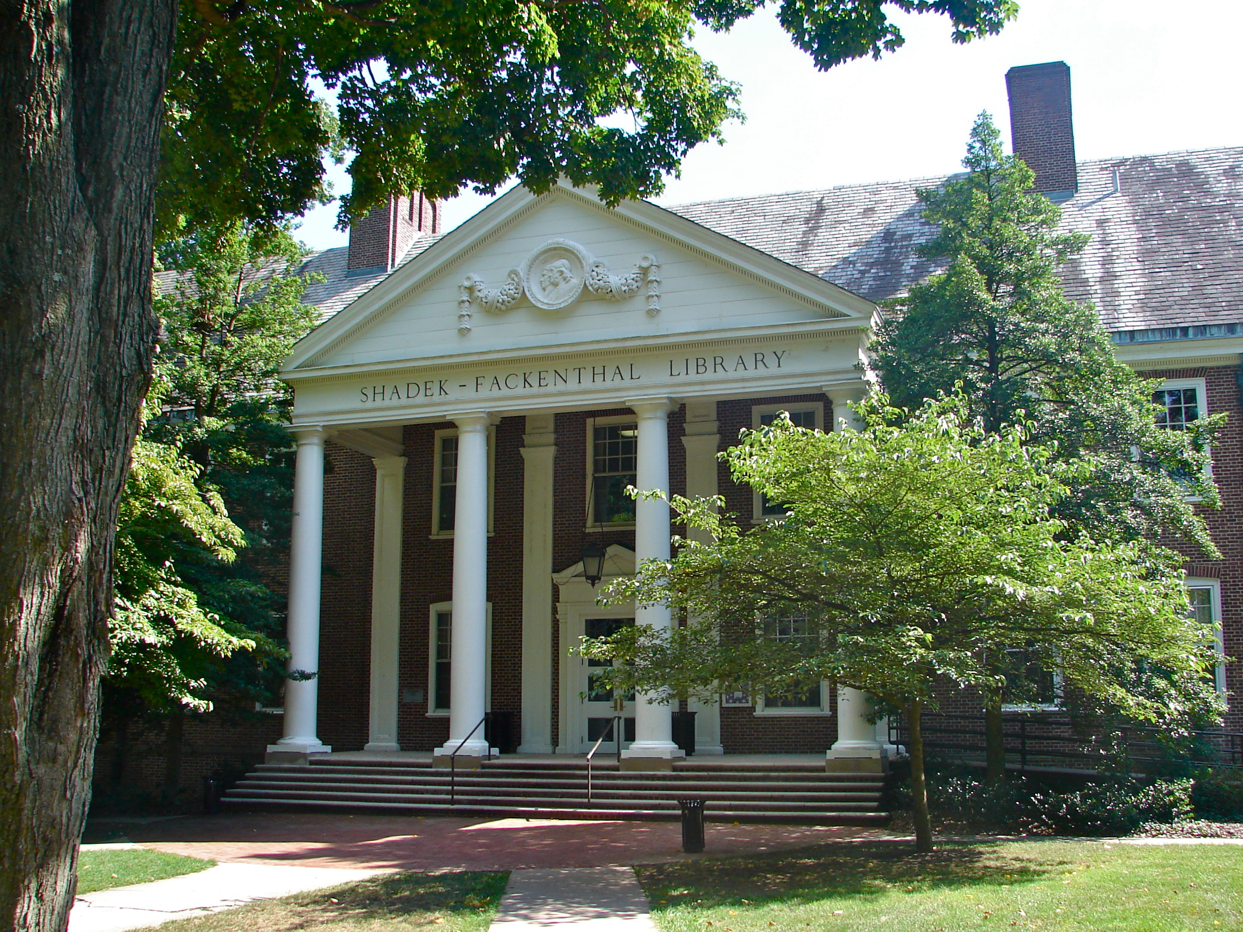 The Shadek-Fackenthall Library at Franklin and Marshall College in Lancaster, Pennsylvania. Built in the late 1930s in the Colonial Revival style. This and about 10 older buildings on campus are part of the Franklin and Marshall College Campus Historic District on the NRHP since November 21, 2003, on College Avenue, in the College Park neighborhood of Lancaster, Pennsylvania.